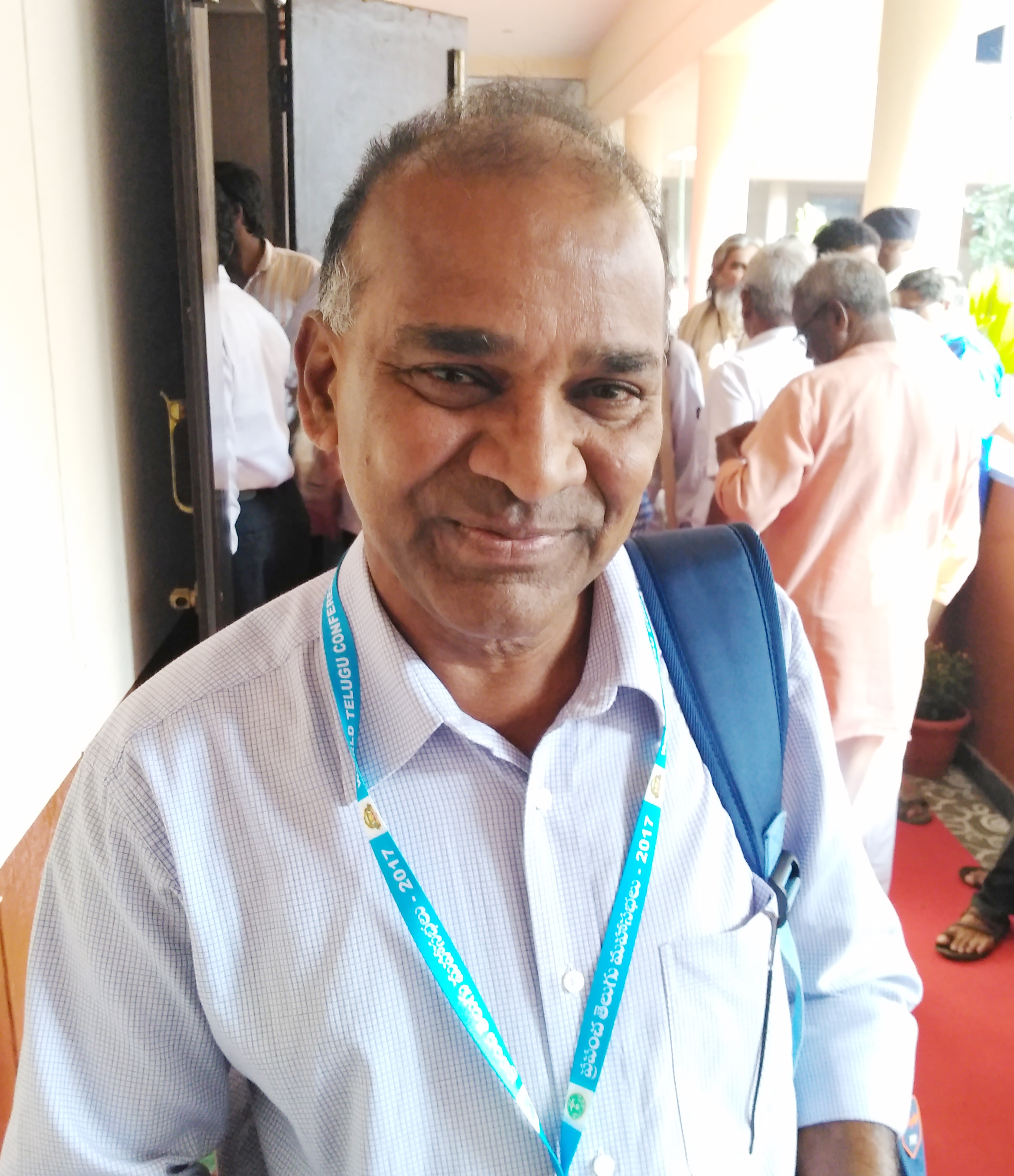 తెలుగు ప్రపంచ మహాసభల వద్ద దృశ్యాలు,వ్యక్తులు,సమావేశాలు